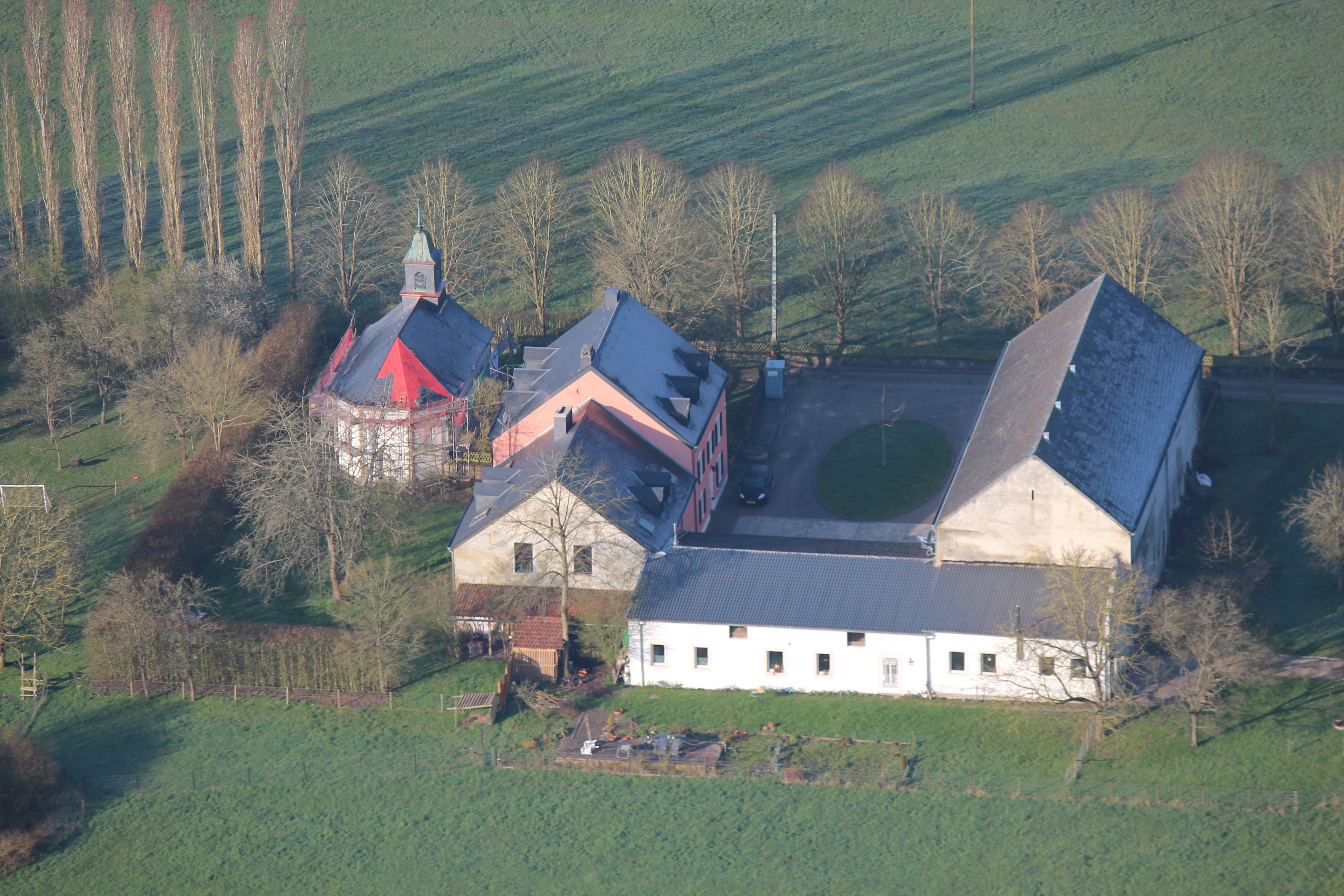 Seylerhaff, farm in the municipality of Nommern.